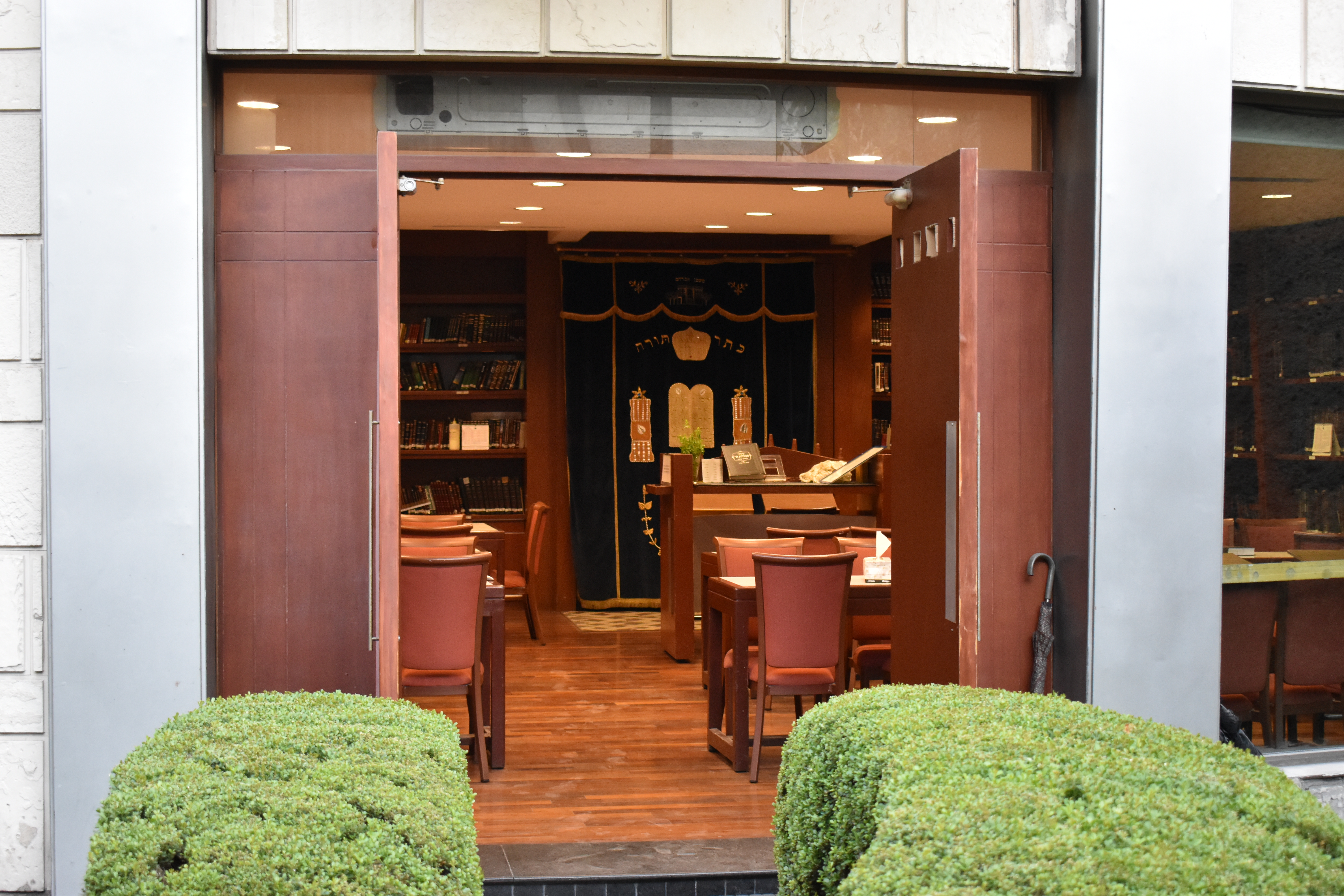 Small synagogue at Platón 338, Polanco, Mexico City. Congregants are originally from Damascus and came in the 1960s.